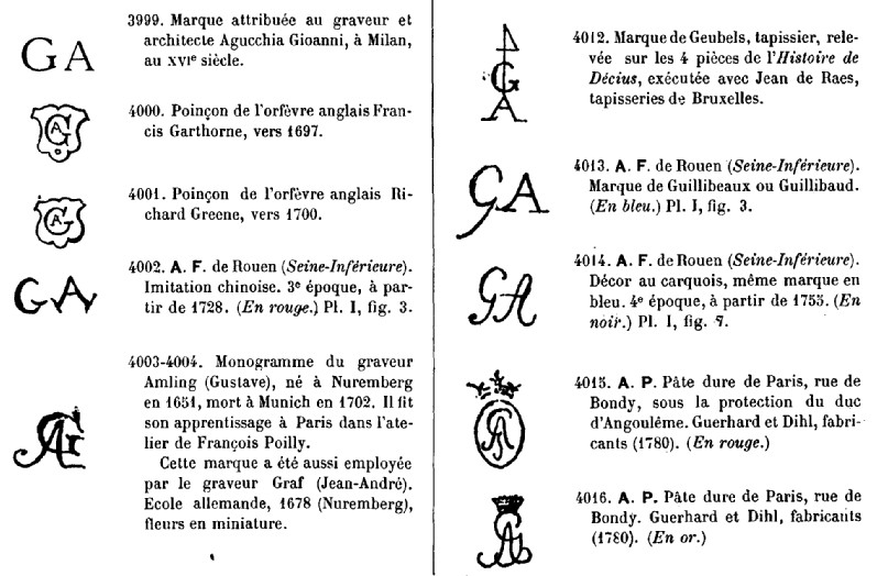 A short extract of Oscar-Edmond Ris-Paquot's Dictionnaire encyclopédique des marques, monogrammes... (Paris, 1893) showing some combinations of letters A and G.